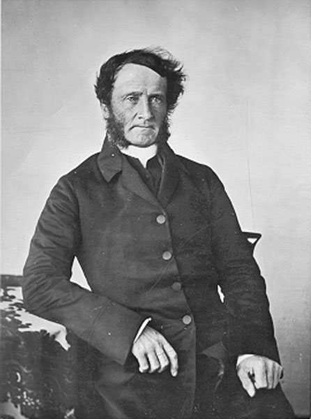 Reverend John Lillie (1806–1866)